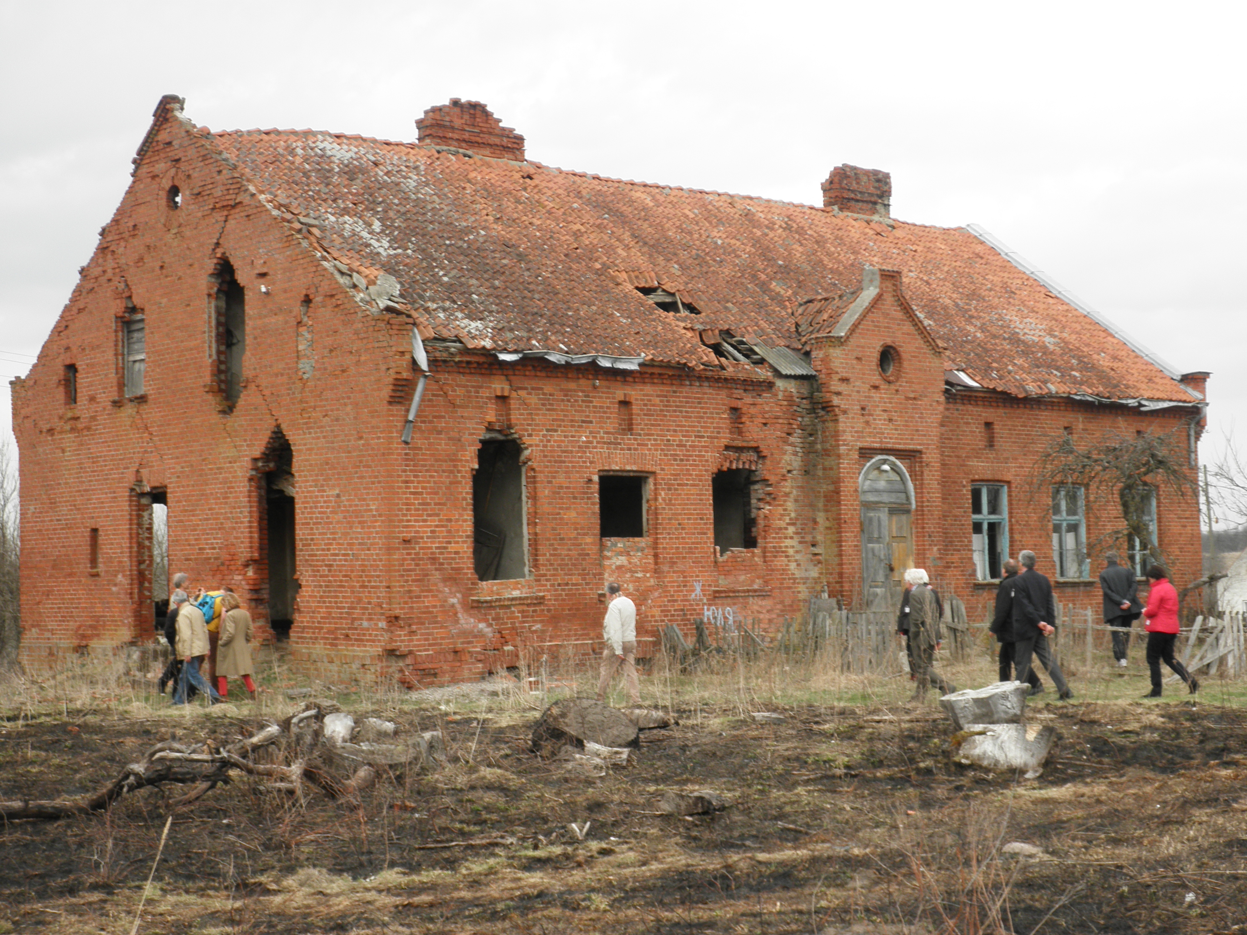 Ruin in Wessjolowka (Kaliningrad, Tschernjachowsk) in Russia